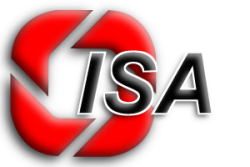 Logo for the Institute for Storage Ring Facilities (ISA) in Aarhus, Denmark.